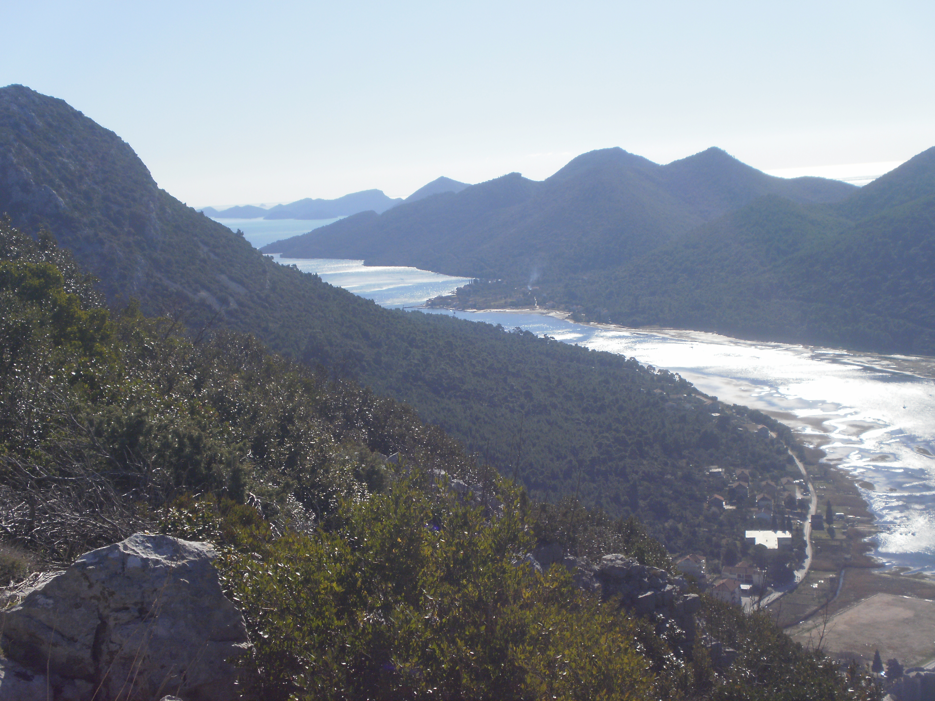 Ston as seen from fort OLYMPUS DIGITAL CAMERA